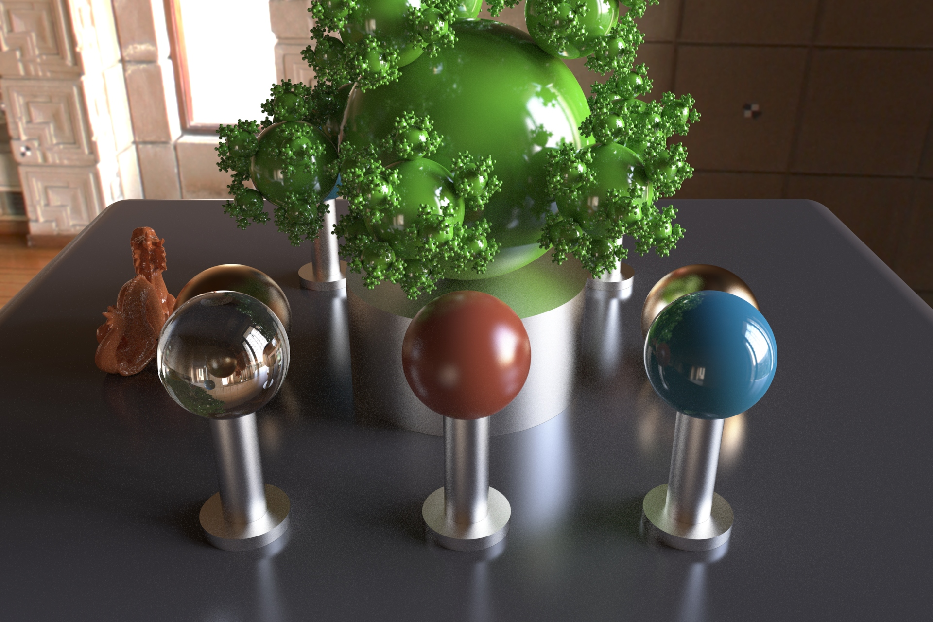 A raytraced image showing several spheres and a sphereflake